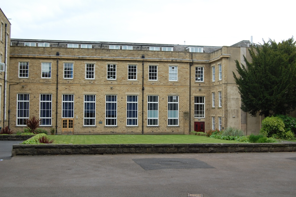 Woodhouse Grove School (The quad)